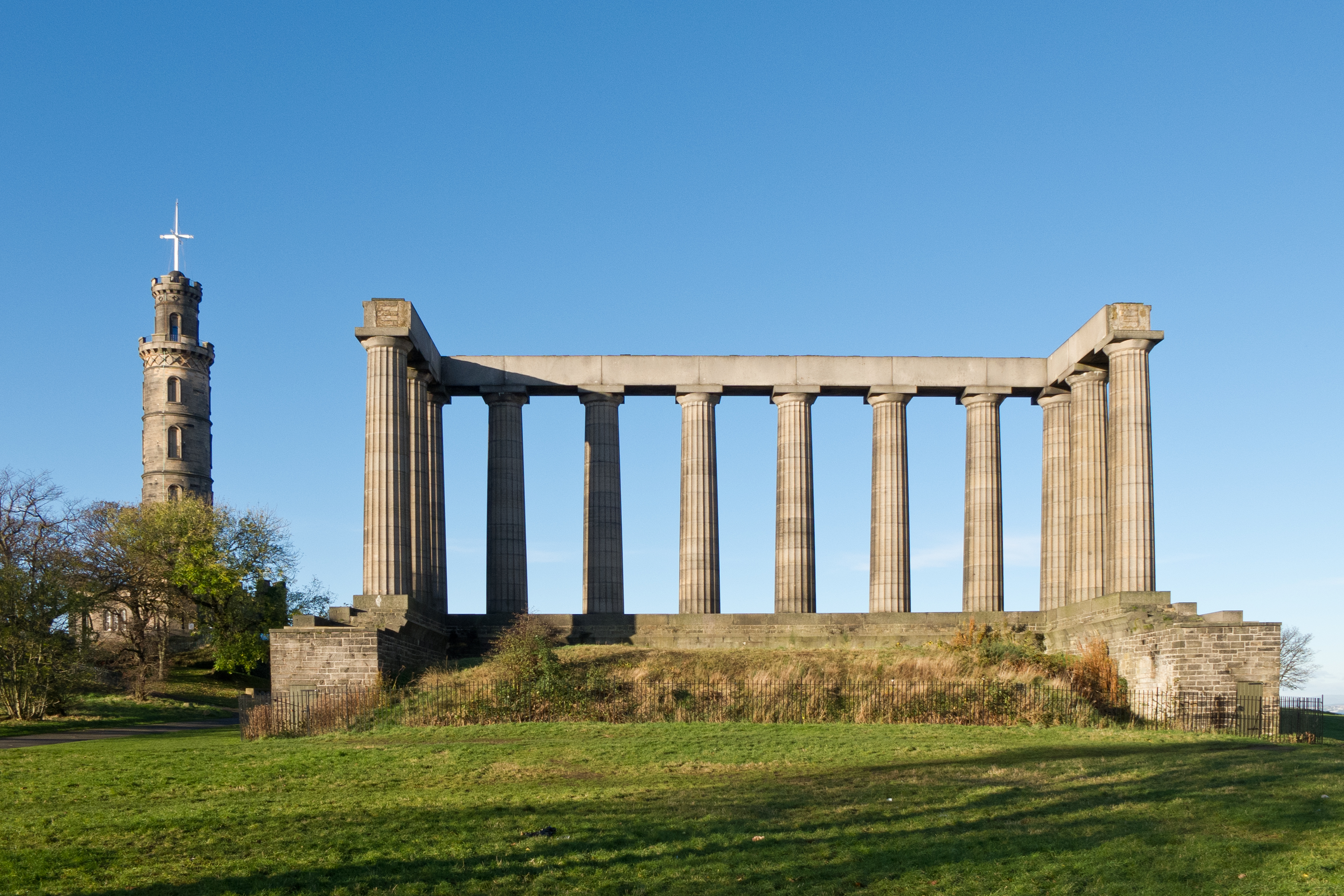 Nelson's Monument and National Monument, Edinburgh, Scotland, UK. Wikidata has entry Q6974379 with data related to this building.